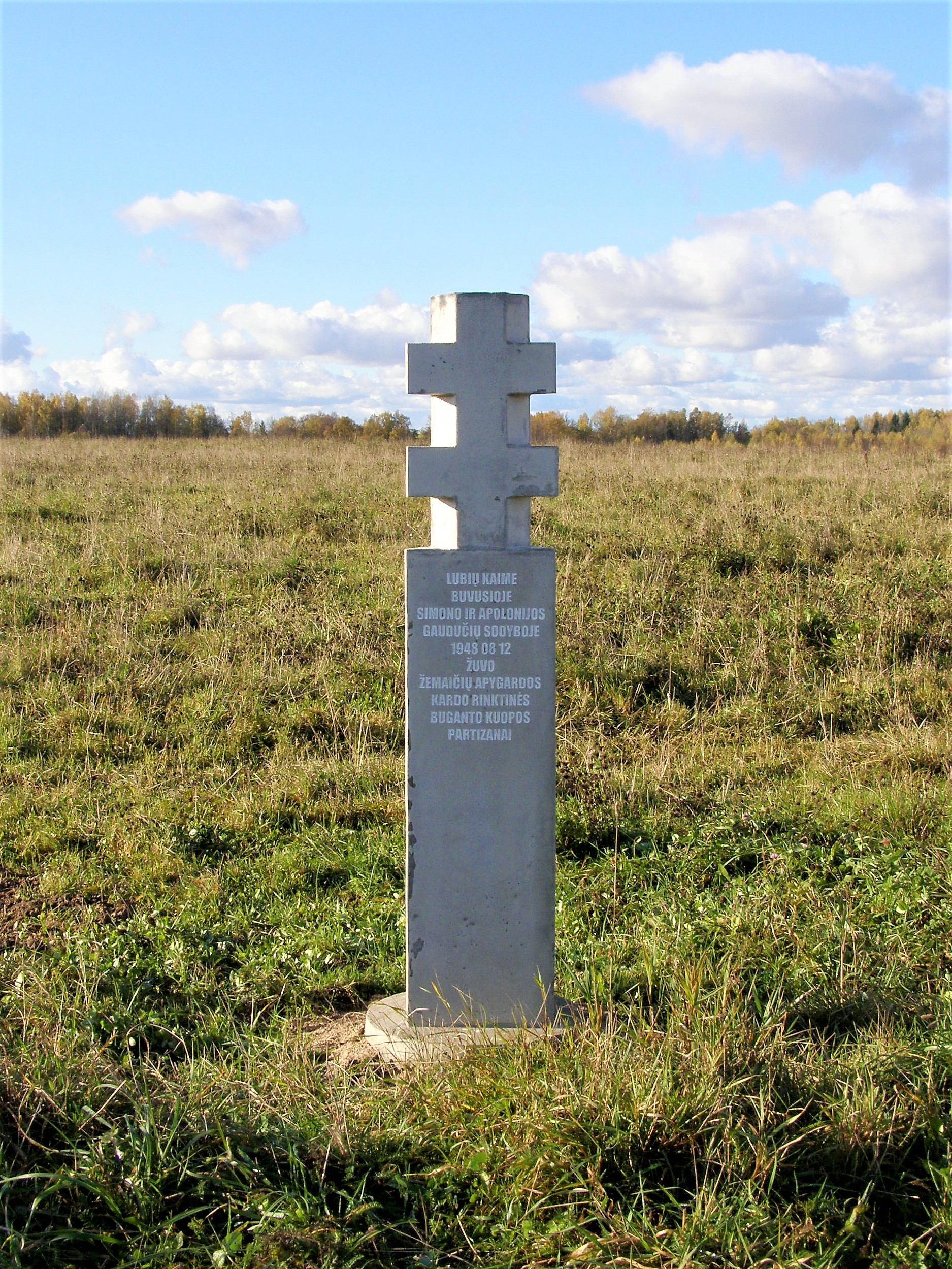 Lubiai monument to the partizans, Kretinga district, LithuaniaLietuvių: Lubių partizanų atminimo vieta, Kretingos rajonas, Lietuva